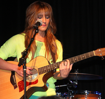 I took this picture of Veronica performing an acoustic set in Nashville, TN.